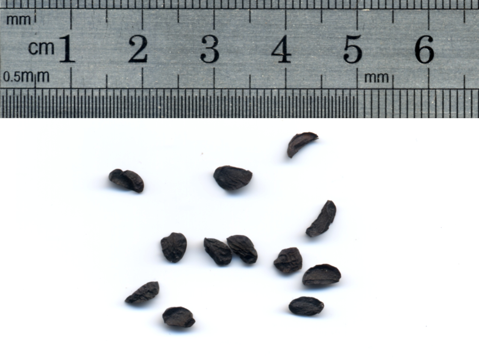 Seeds of Ornithogalum caudatum scanned with size information